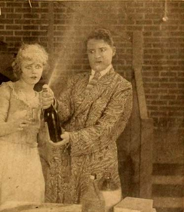 Still from the American film The Six Best Cellars (1920) with Wanda Hawley and Bryant Washburn, on page 75 of the July 1920 Motion Picture Magazine. Prohibition in the United States had begun in January 1920.